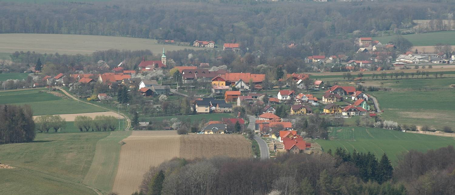 village Bernartice nad Odrou, Czech Republic